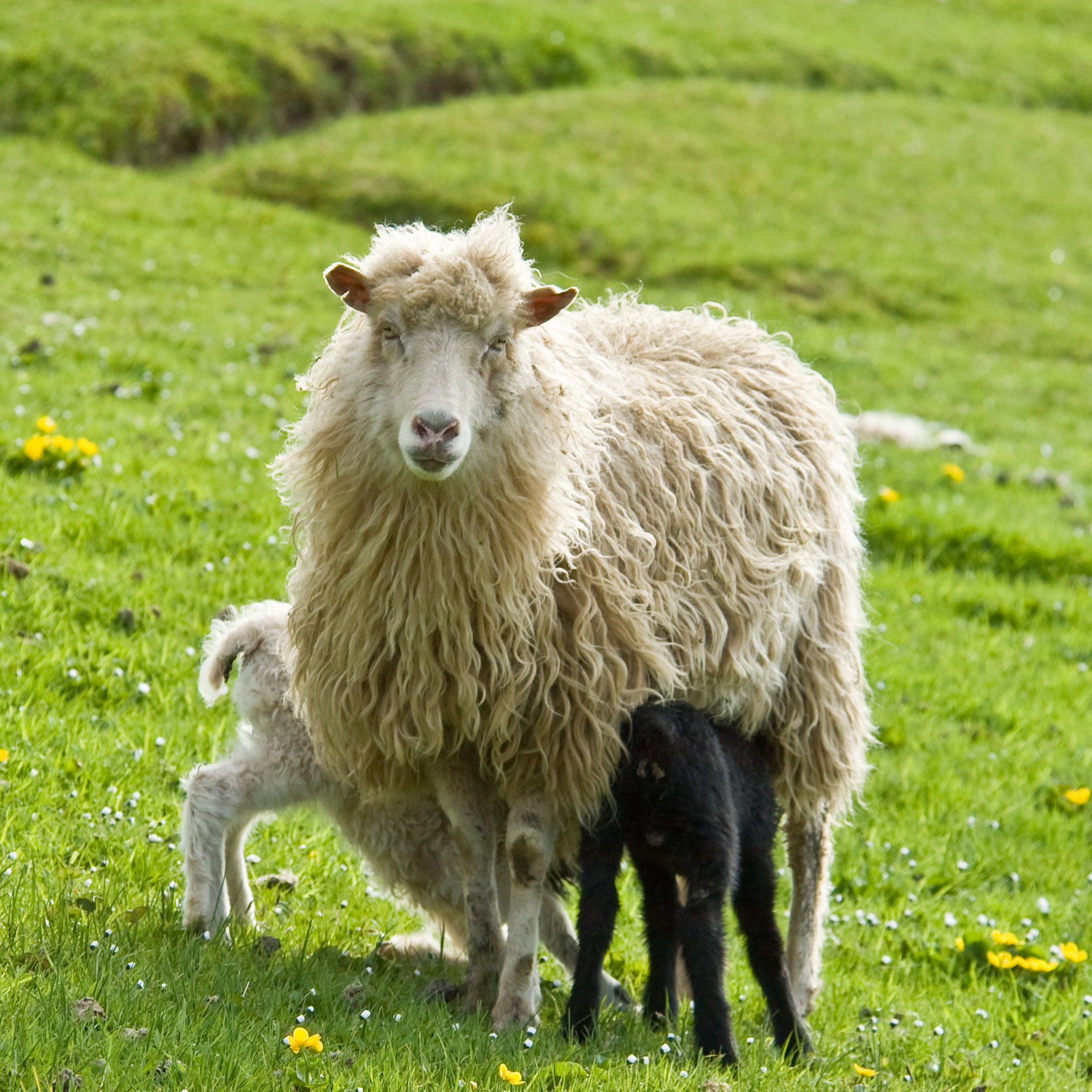 A ewe and her twins on the Faeroes.